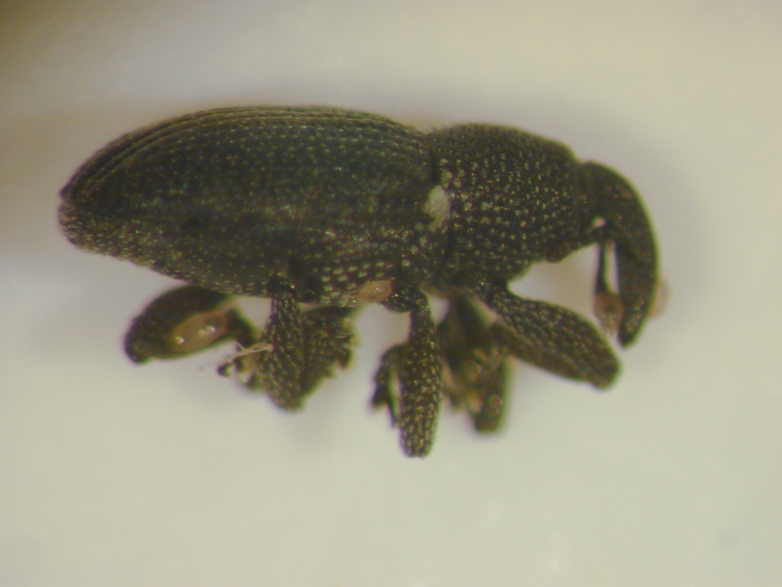 Coccinia grandis (biocontrol Acuthopeus cocciniae adult). Location: Maui, DOA Kahului